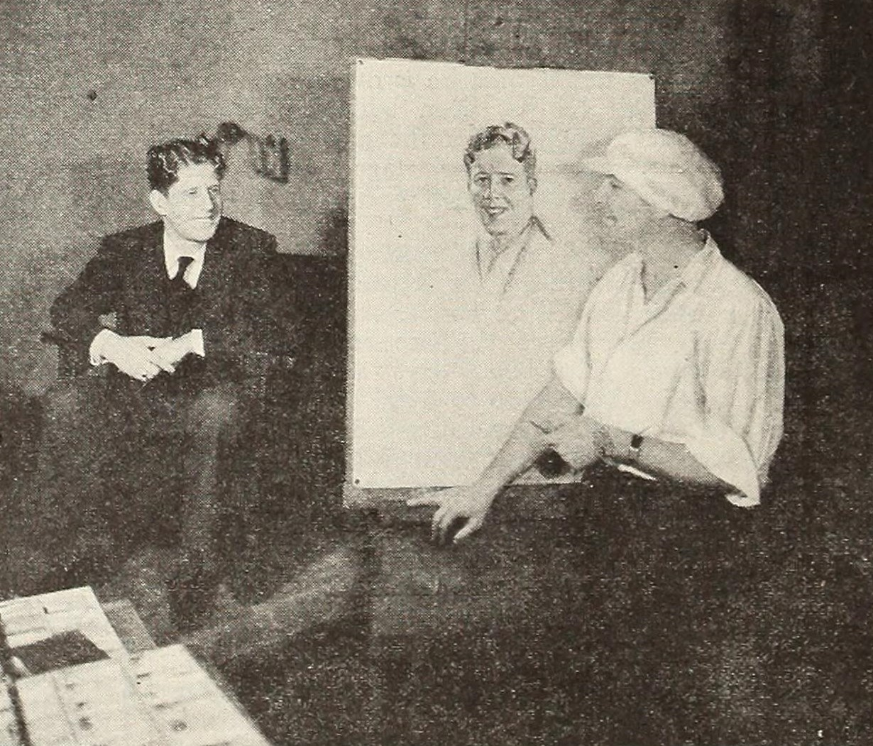 Screenland, Jan. 1930